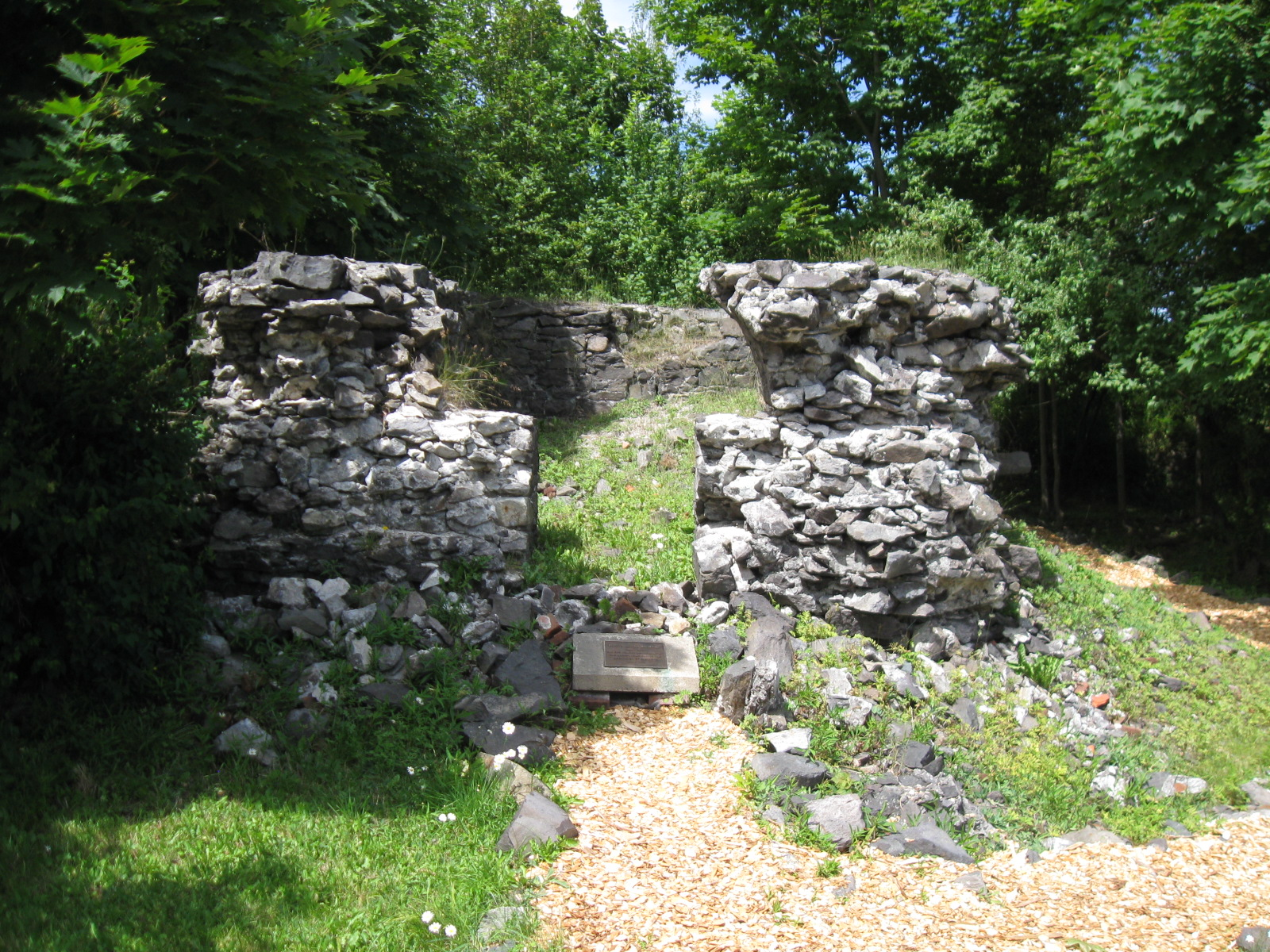 Remnants of "Old Powder House" built by English forces during occupation of Eastport 1814-18